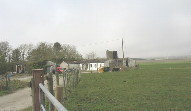 Site 1 of RAF Bodorgan RAF Bodorgan began life, in 1940, as RAF Aberffraw, but the latter name proved too hard for the top brass to pronounce and the name was changed to RAF Bodorgan. The locals refer to the base as Ciamp Penrhynhalen (Penrhynhalen Camp), the facility having been set up on the land of Penrhynhalen Farm. RAF Bodorgan, was a 'hush-hush' base, its location was not shown on RAF maps. It had two main functions:(a)as a Satellite Landing Ground, and, (b) as a launching site for pilotless Queen Bee aircraft (converted Tiger Moths) and for towed targets drawn behind Lysanders and Martinets, which were used as targets for RA air-gunners at the nearby Ty Croes artillery range. There was also an experimental squadron charged with carrying out radar experiments with the foil, or 'window' as it was then dubbed. RAF Bodorgan closed down at the end of 1945.